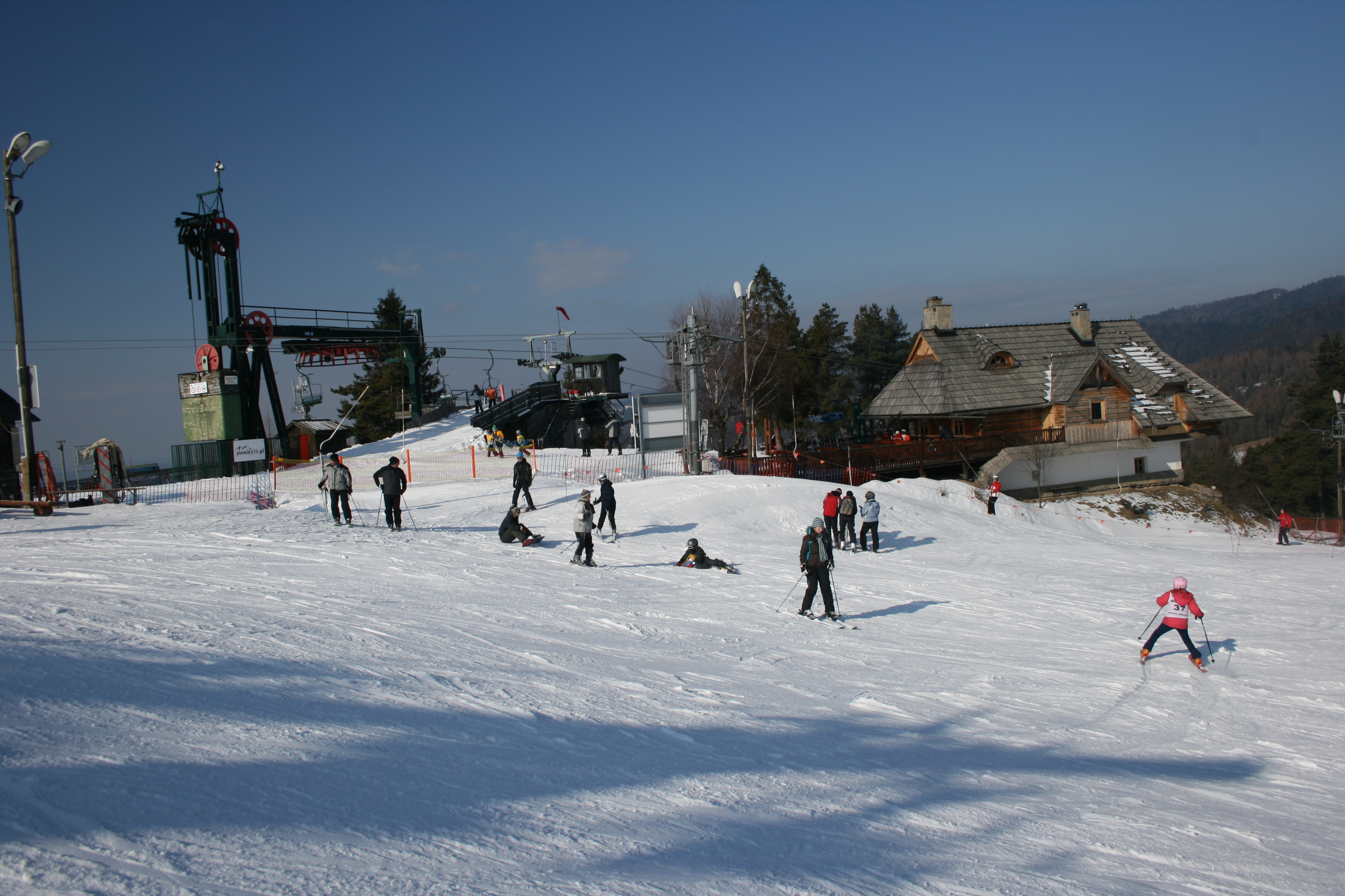 Czorsztyn-Ski chairlift upper terminal in Kluszkowce